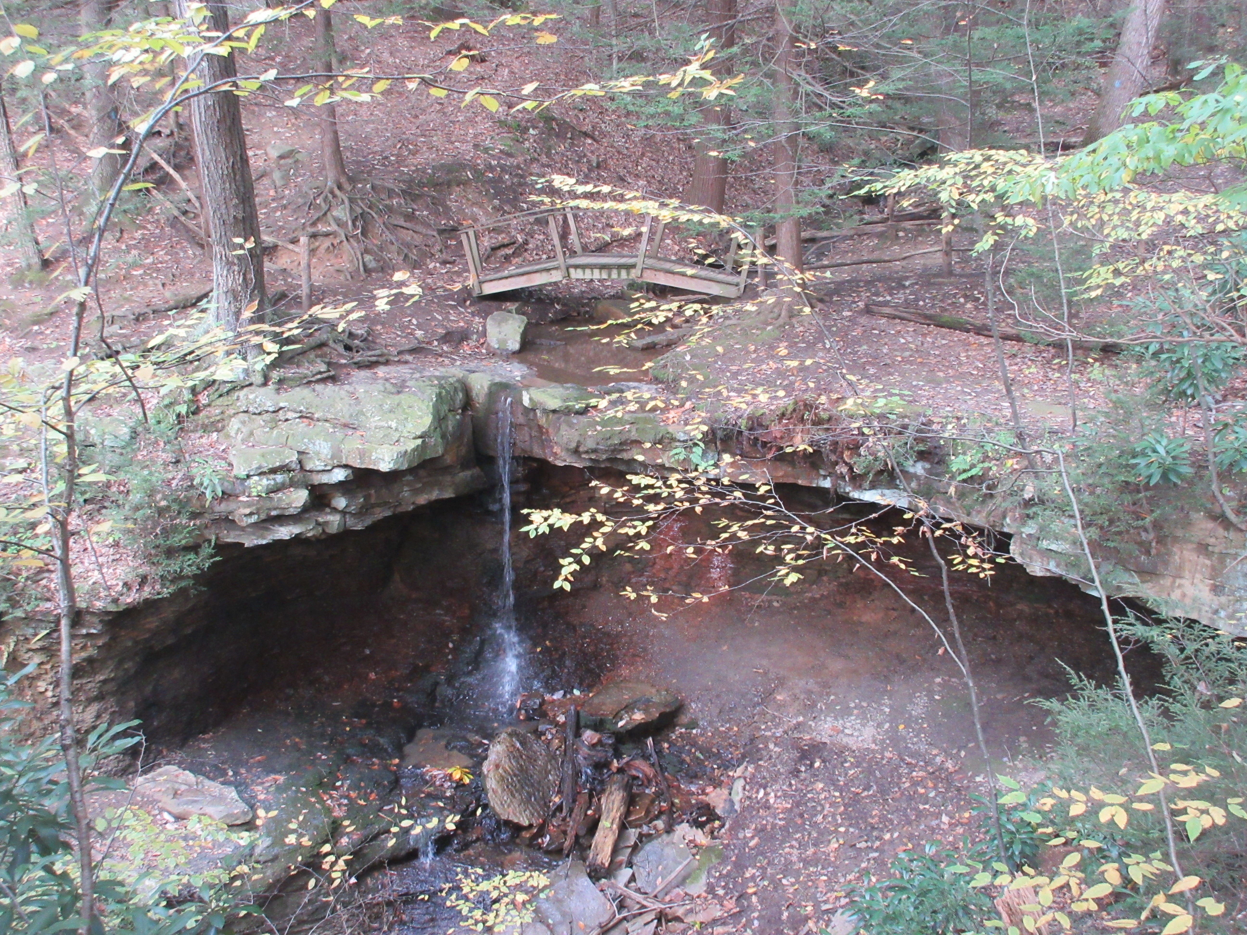 Only a trickle of water crests the 15-foot Adams Falls during the summer months.; Linn Run State Park